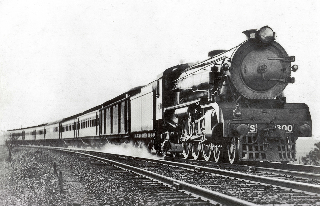 Victorian Railways S class locomotive S 300 leads the Sydney Express between Seymour and Melbourne, circa 1928.